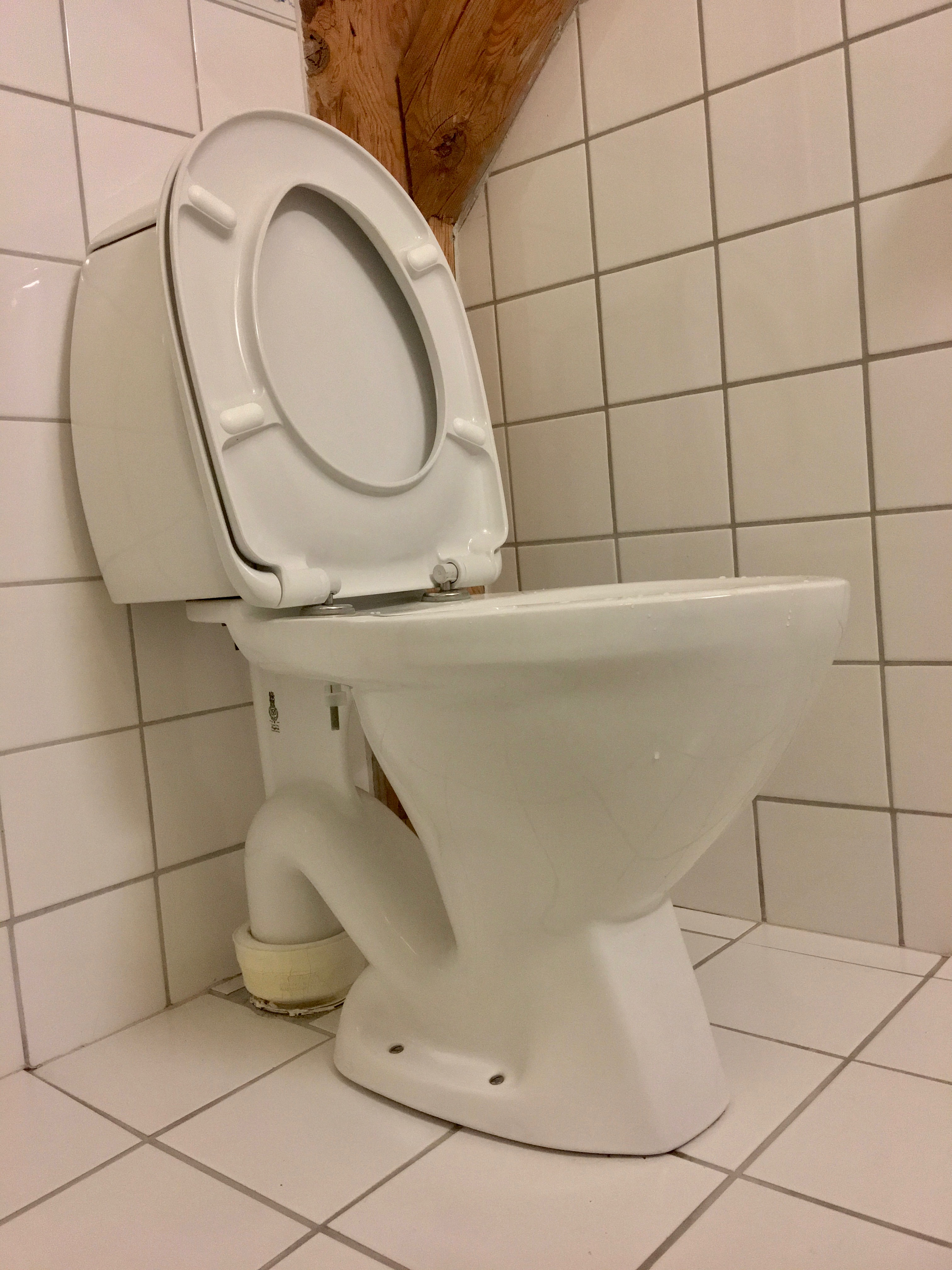 Toilet, wall and floor tiles in a bathroom in a hotel in Hordaland, Norway (2018-03-20)